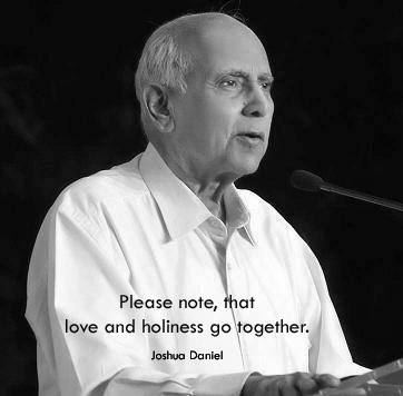 bro.joshua daniel is the worker of jesus christ